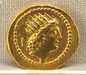 Ancient Roman coins in the Palazzo Massimo alle Terme Moneyer: P. Clodius M.f. Turrinus. 42 BC. AV Aureus . Rome mint. Radiate head of Sol right; quiver to left. On the reverse there is a crescent surrounded by five stars; P • CLODIVS/• M • F • in two lines below. Crawford 494/20a; CRI 181a; Sydenham 1114a